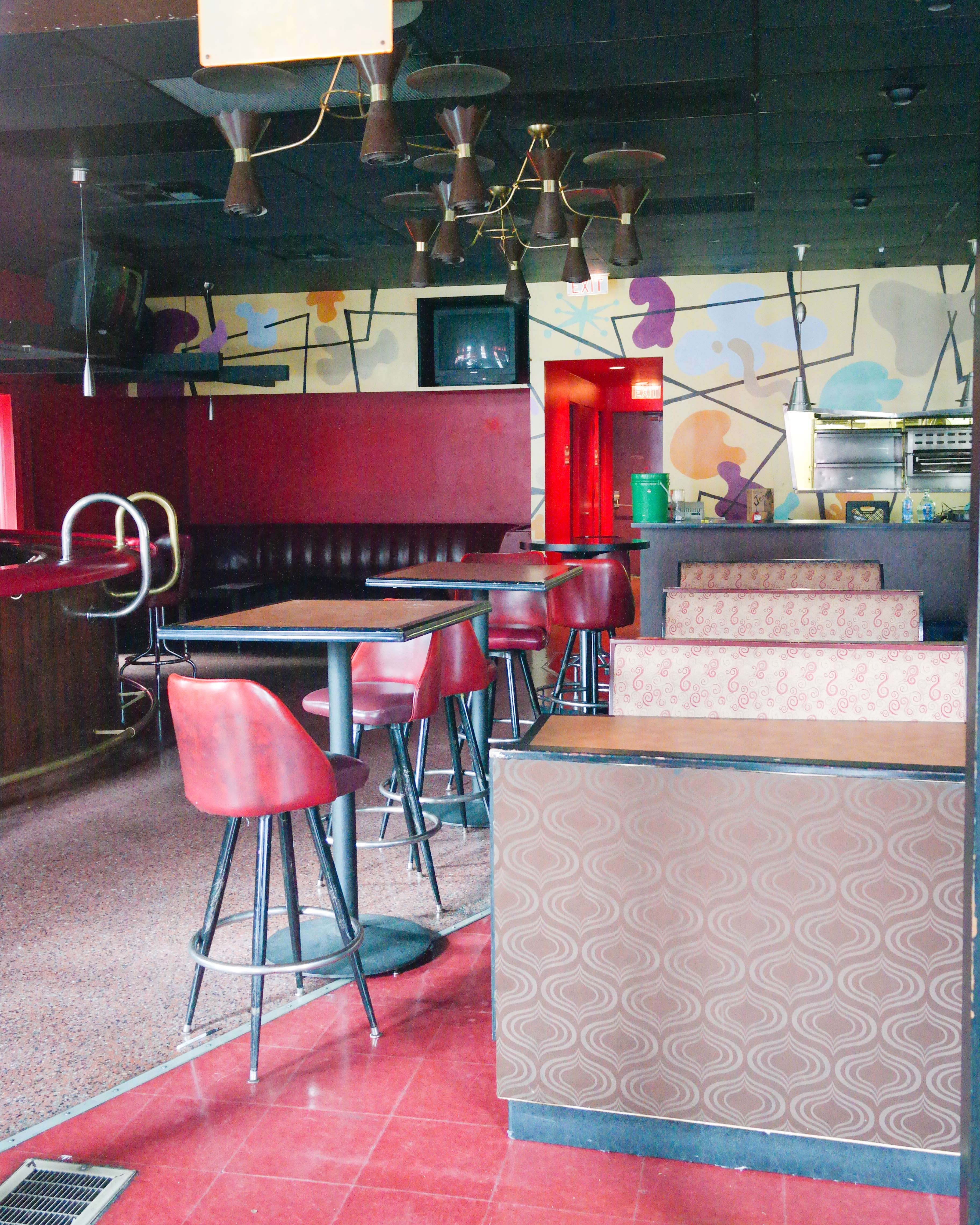 A view of the recently defunct Gypsy Restaurant and Velvet Lounge in Portland, Oregon